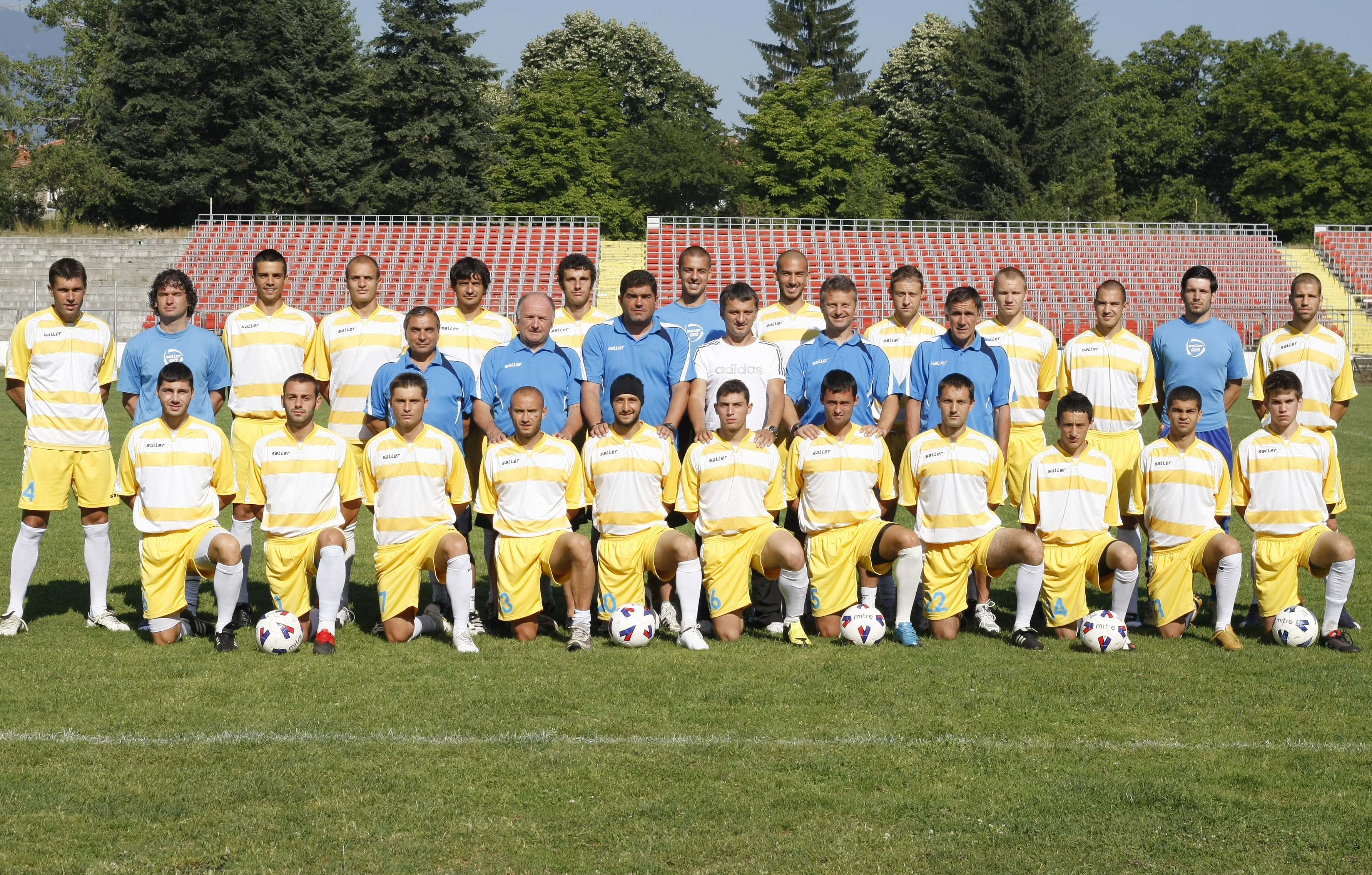 Akademik summer 2010